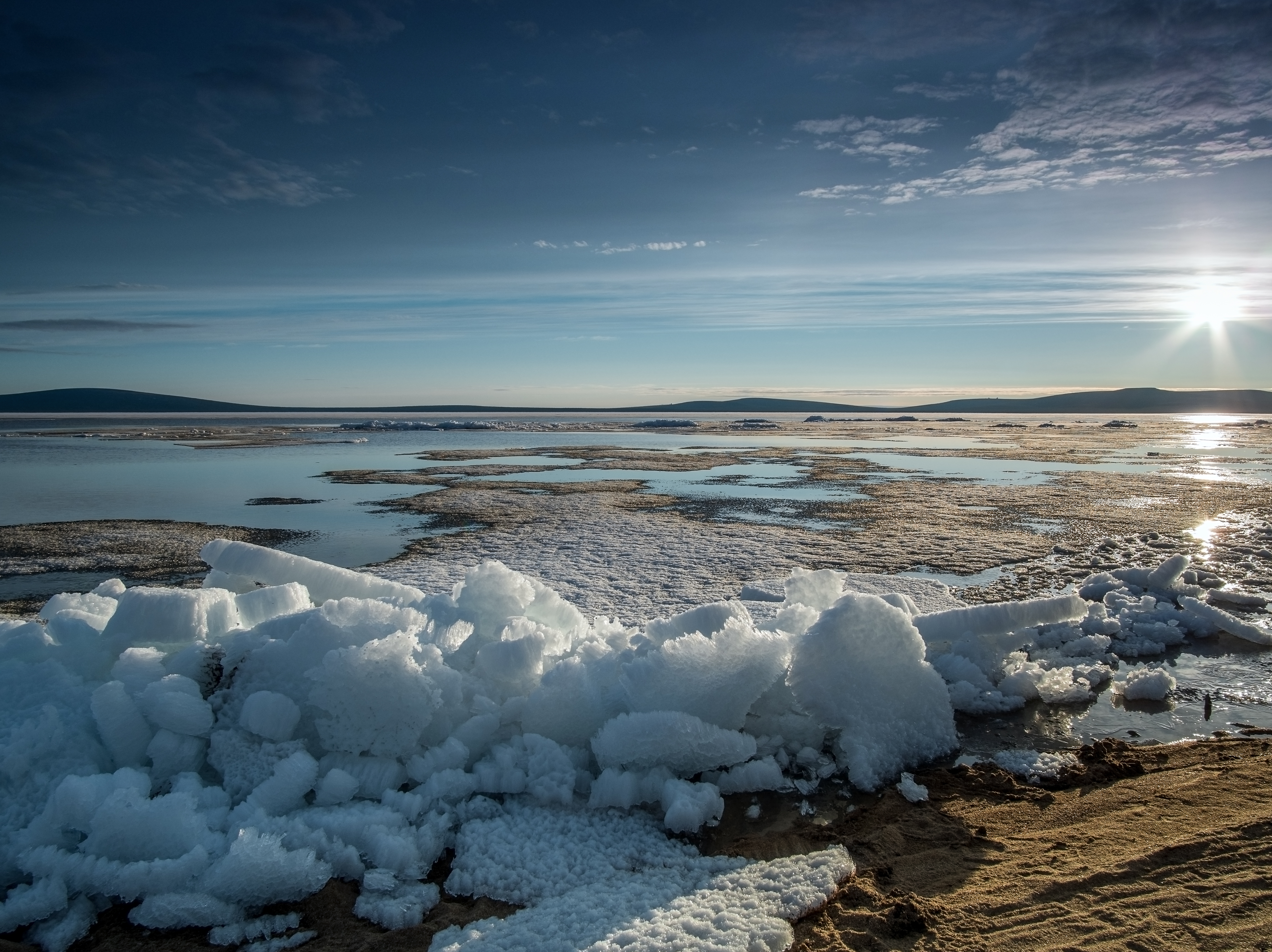 The midnight sun during polar day near the lake Ozhogino, the Sakha Republic, Russia This image is related to the protected area of Russia number 1410011